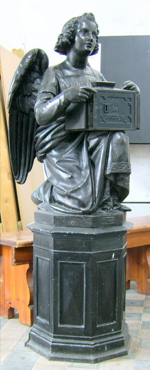 Money collection box at Our Lady's church, Trondheim, Norway.